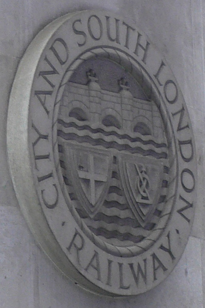 Arms of the City and South London Railway, the world's first deep tube railway and first major electric railway opened in London in 1890. The railway is now part of the London Underground's Northern Line. The arms incorporate, the arms of the City of London (bottom left) and the Southwark Cross (bottom right) representing the two parts of the city connected by the railway. The wavy bars represent the River Thames under which the railway tunnelled and the bridge represents London Bridge, close to which the tunnels ran. Image cropped from the original: Image:James Henry Greathead statue by Bank tube station.jpg photographed by User:Justinc.